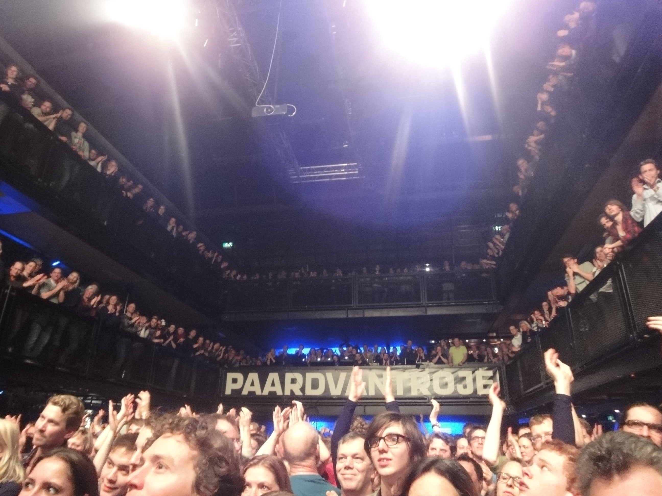 Spinvis in concert at "Paard van Troje" in The Hague Personality rights warning Although this work is freely licensed or in the public domain, the person(s) shown may have rights that legally restrict certain re-uses unless those depicted consent to such uses. In these cases, a model release or other evidence of consent could protect you from infringement claims.